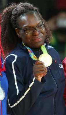 Émilie Andéol (born 30 October 1987) is a French judoka competing in the women's 70 kg division. Gold medal in Rio 2016.